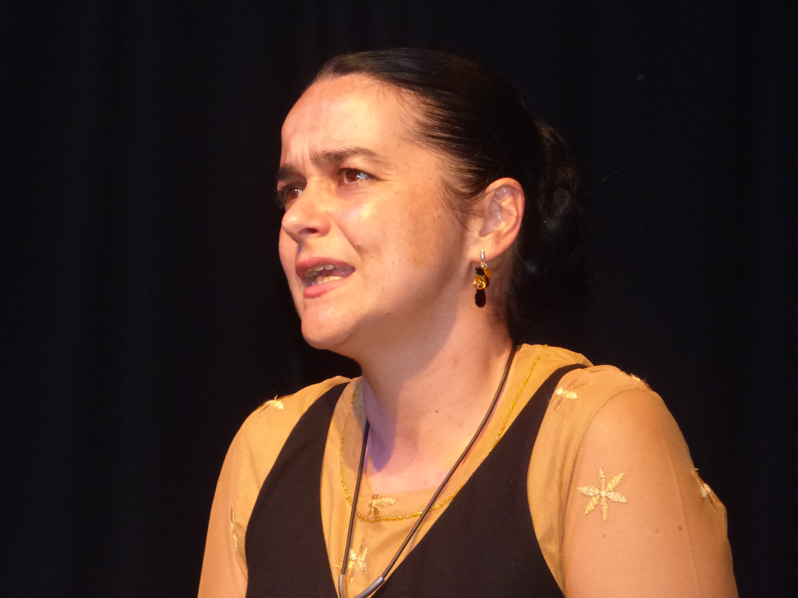 Gajdó Delinke Szabó Magda szerepében